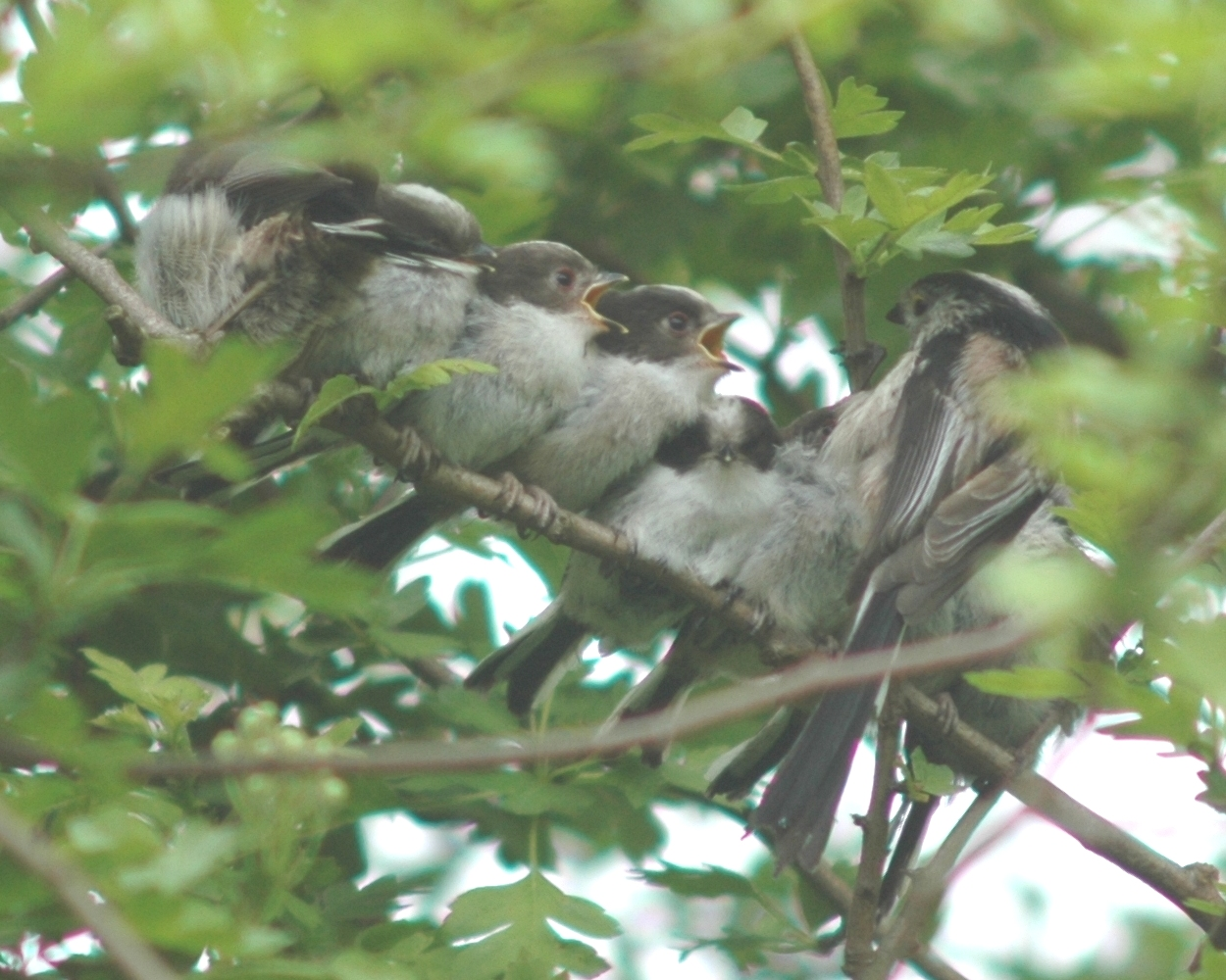 Long tailed tit feeding brood of eight fledglings. Walkden, Greater Manchester, England. Ordnance Survey grid reference SD733026